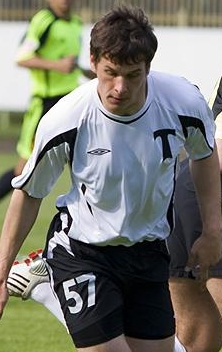 Sergei Gorelov in action FC Torpedo Moscow